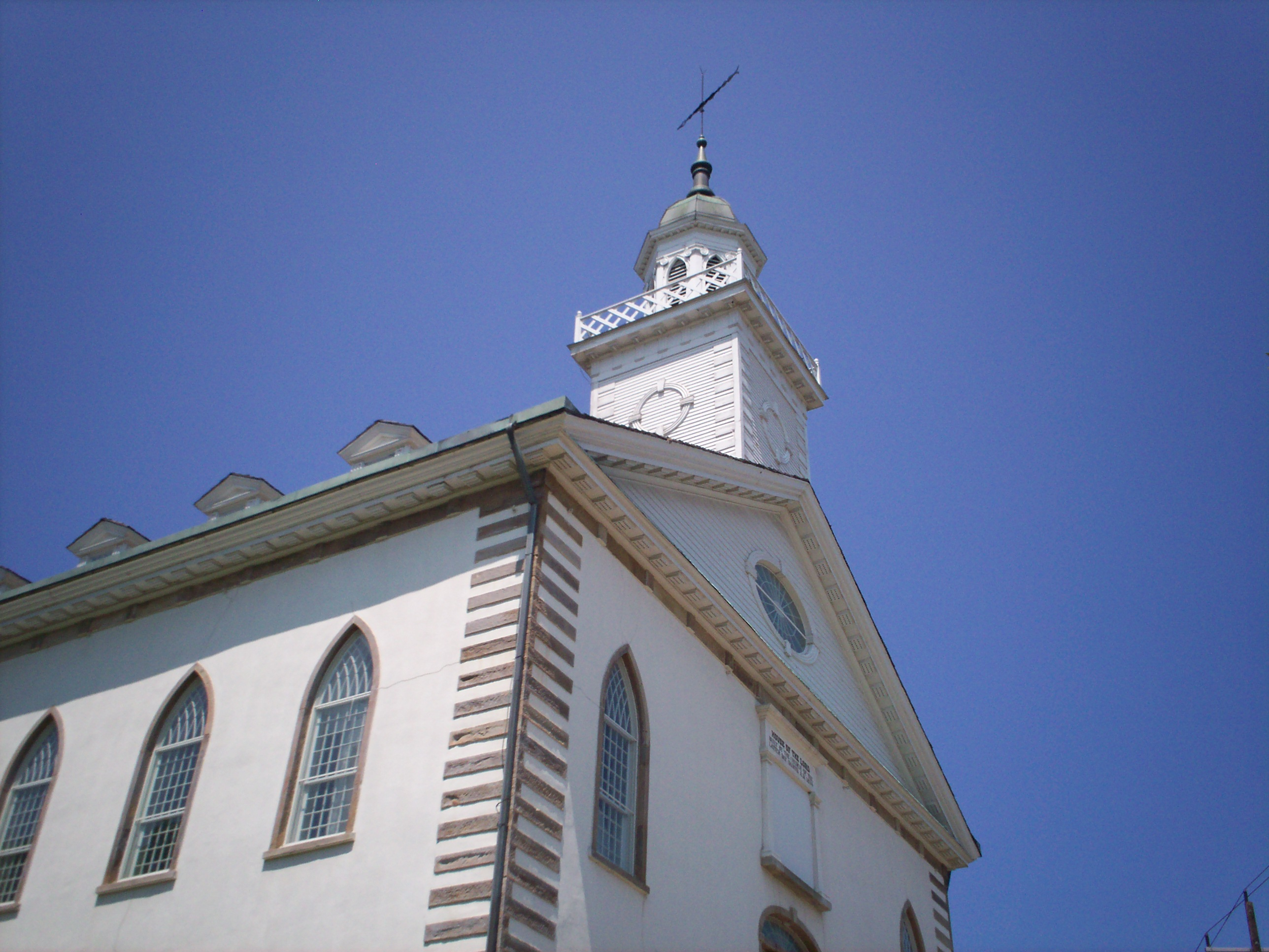 Front view of the Kirtland Temple in Kirtland, Ohio. The Kirtland Temple is listed on the National Register of Historic Places as a National Historic Landmark. Dedicated in 1836, it was the first temple of the Latter Day Saint movement. It is today owned and maintained by the Community of Christ.